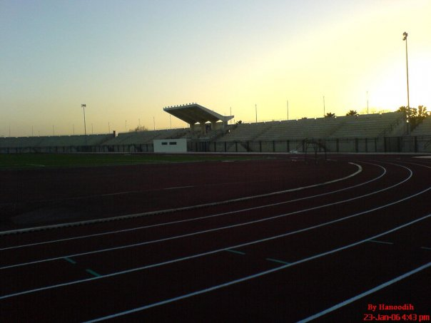 Jordan University of Science and Technology